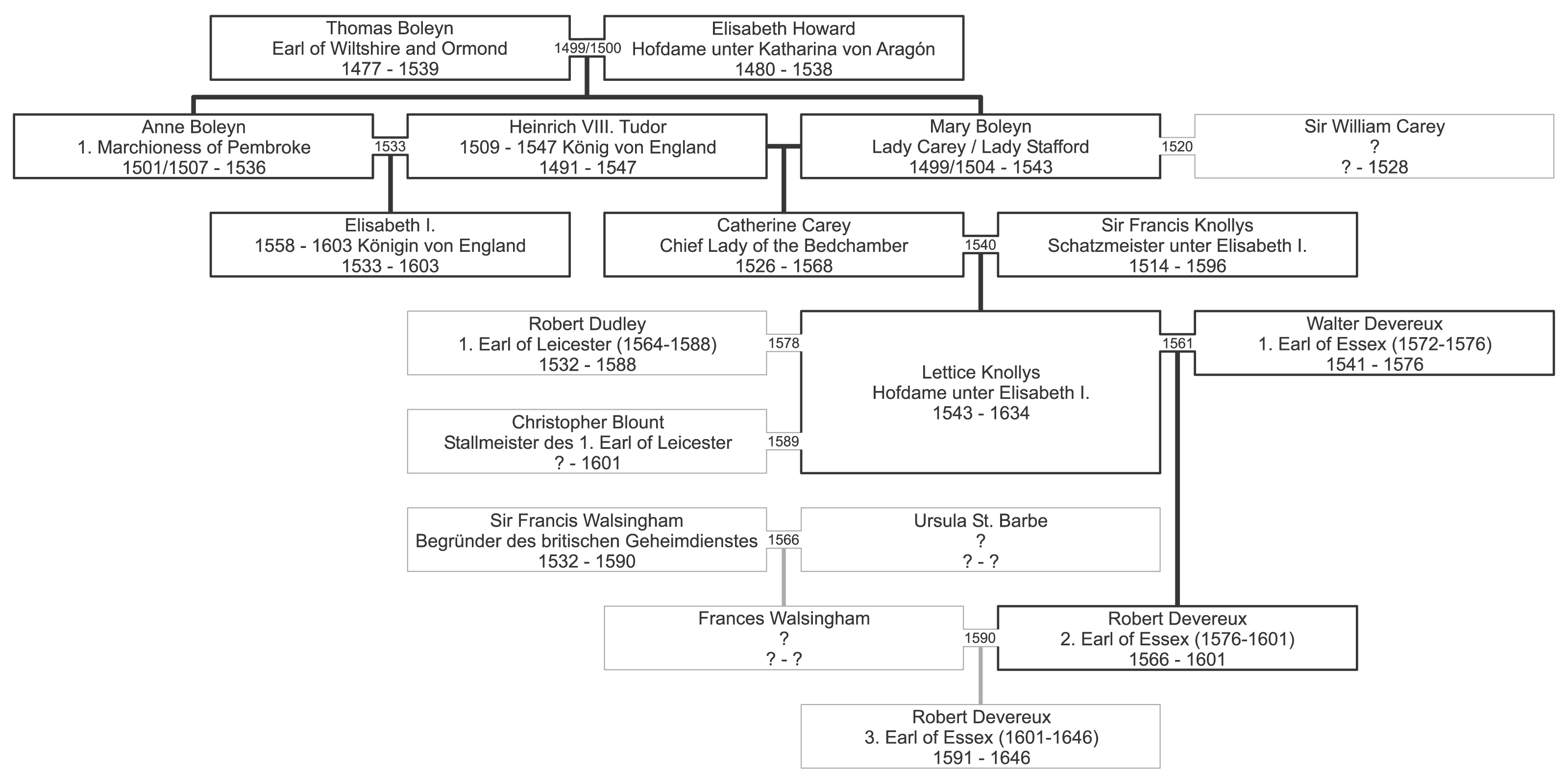 Relationship between Elizabeth I. and Robert Devereux (2nd Earl of Essex)